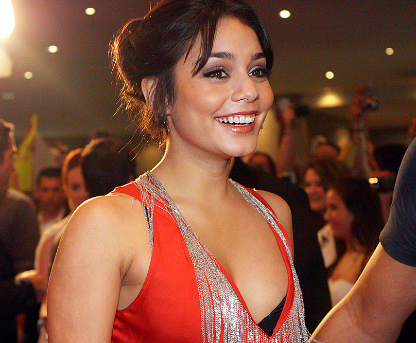 Vanessa Hudgens at the Journey 2: The Mysterious Island, Film premiere in Sydney 2012.